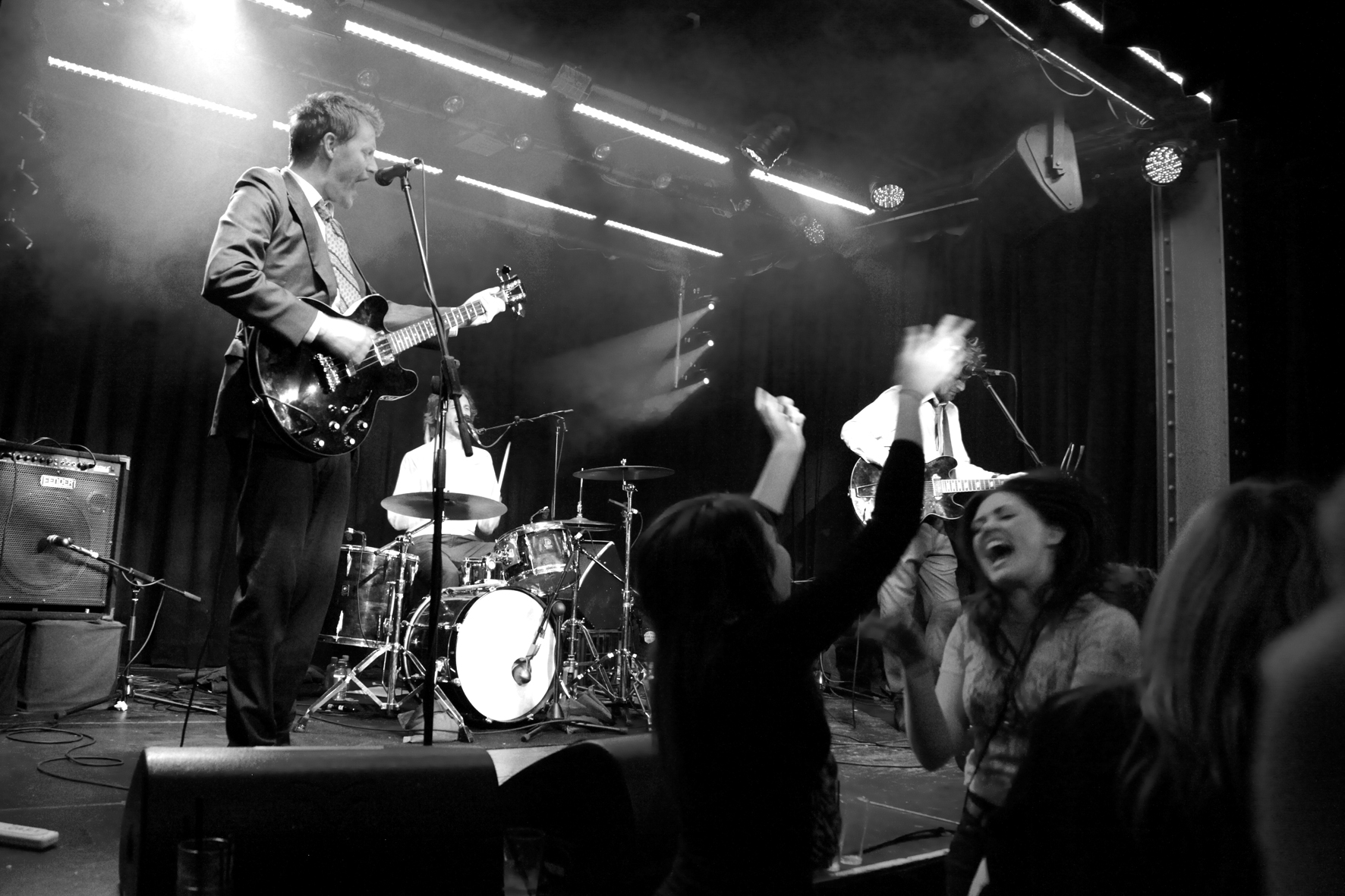 The Basics, mid-song.